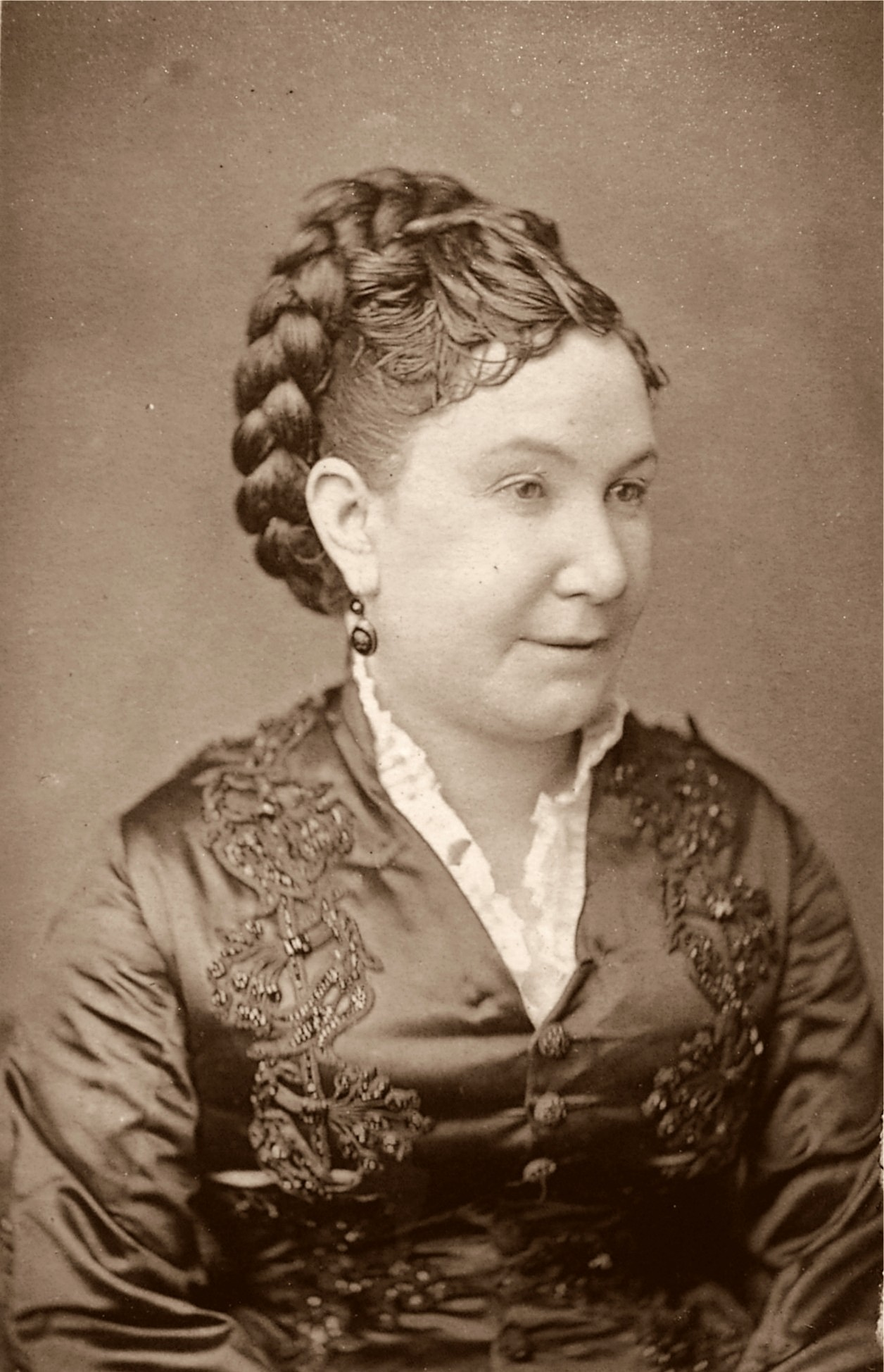 Louisa Lane - Mrs. John Drew 1820-1897, English Actress.